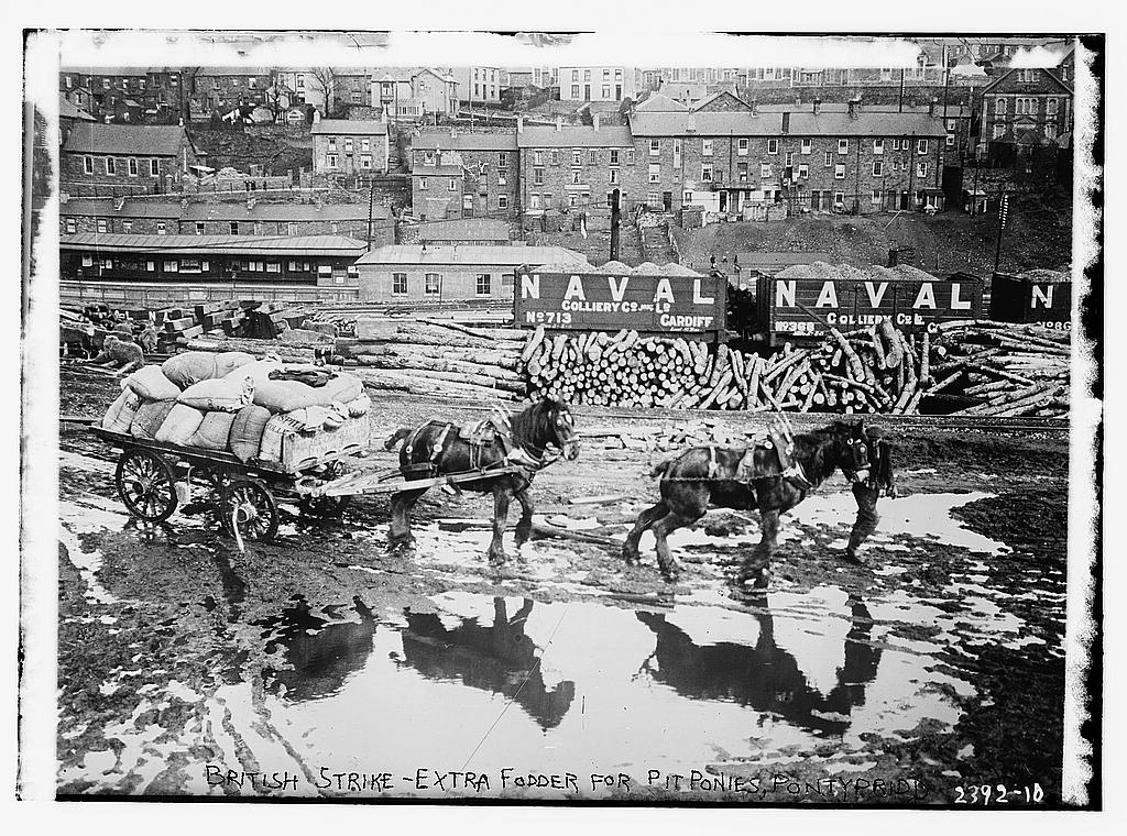 Photograph of horses during one of the coal strikes between 1910 and 1915. photograph taken opposite Tonypandy railway station.